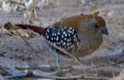 Pink-throated Twinspot (Hypargos margaritatus) (not Hyapargos, title is wrong) on the ground, South Africa.